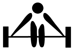 Pictograms of Olympic sports - Weightlifting